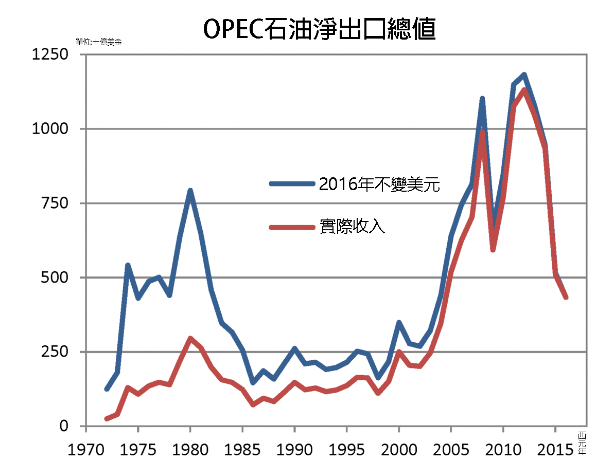 OPEC net oil export revenues (1972–2016).